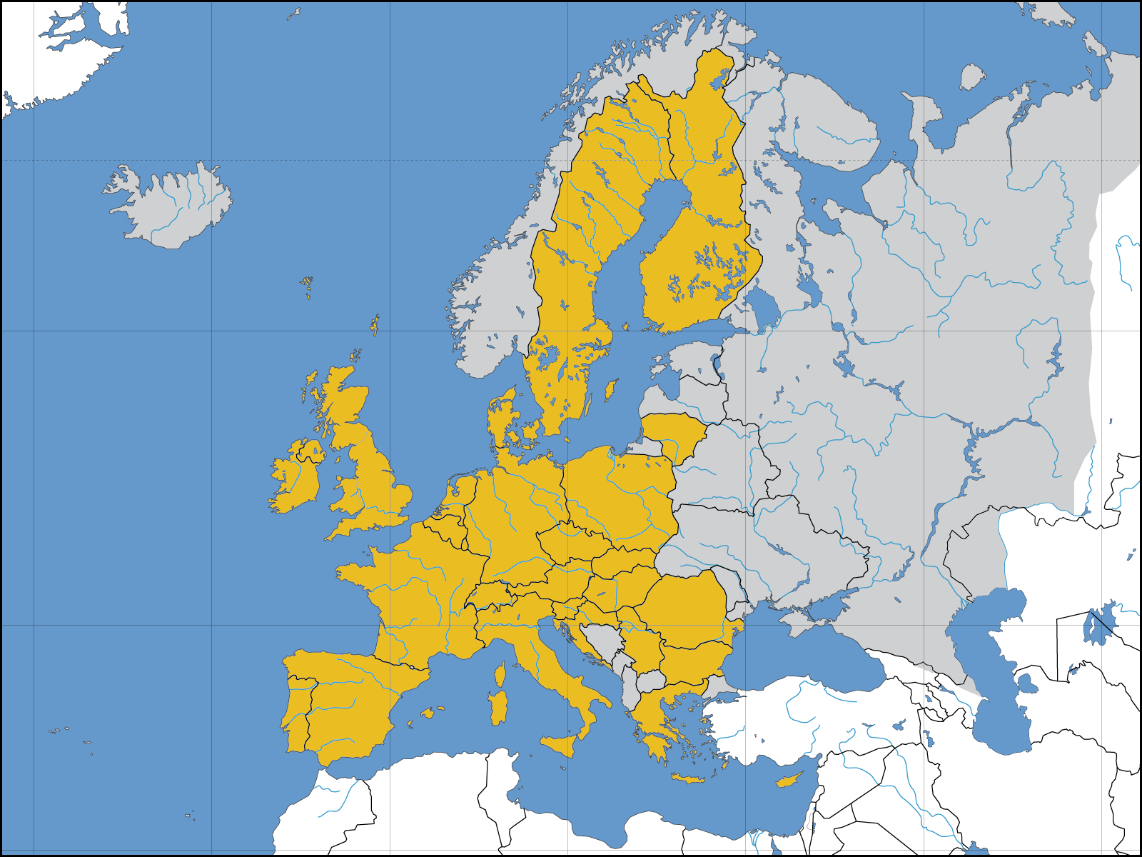 The countries where Lidl is active (as of November 2010)